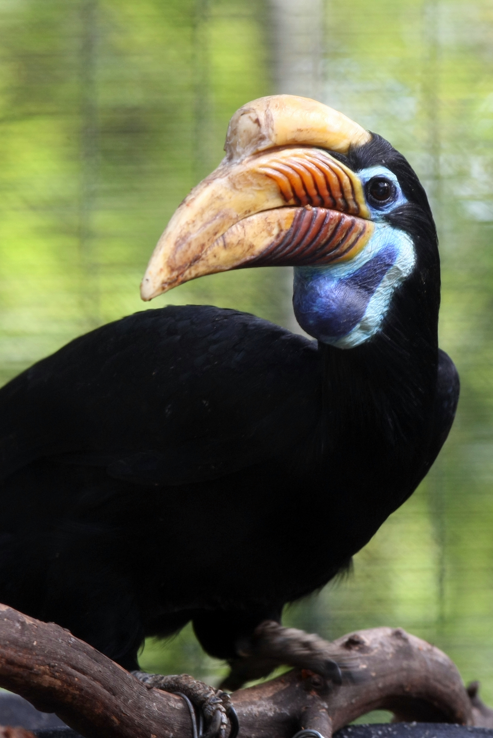 A female Knobbed Hornbill at San Diego Zoo, USA.